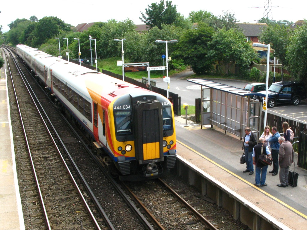 South West Train's 444034 calls at Upwey station in Dorset with a Weymouth to London Waterloo service.